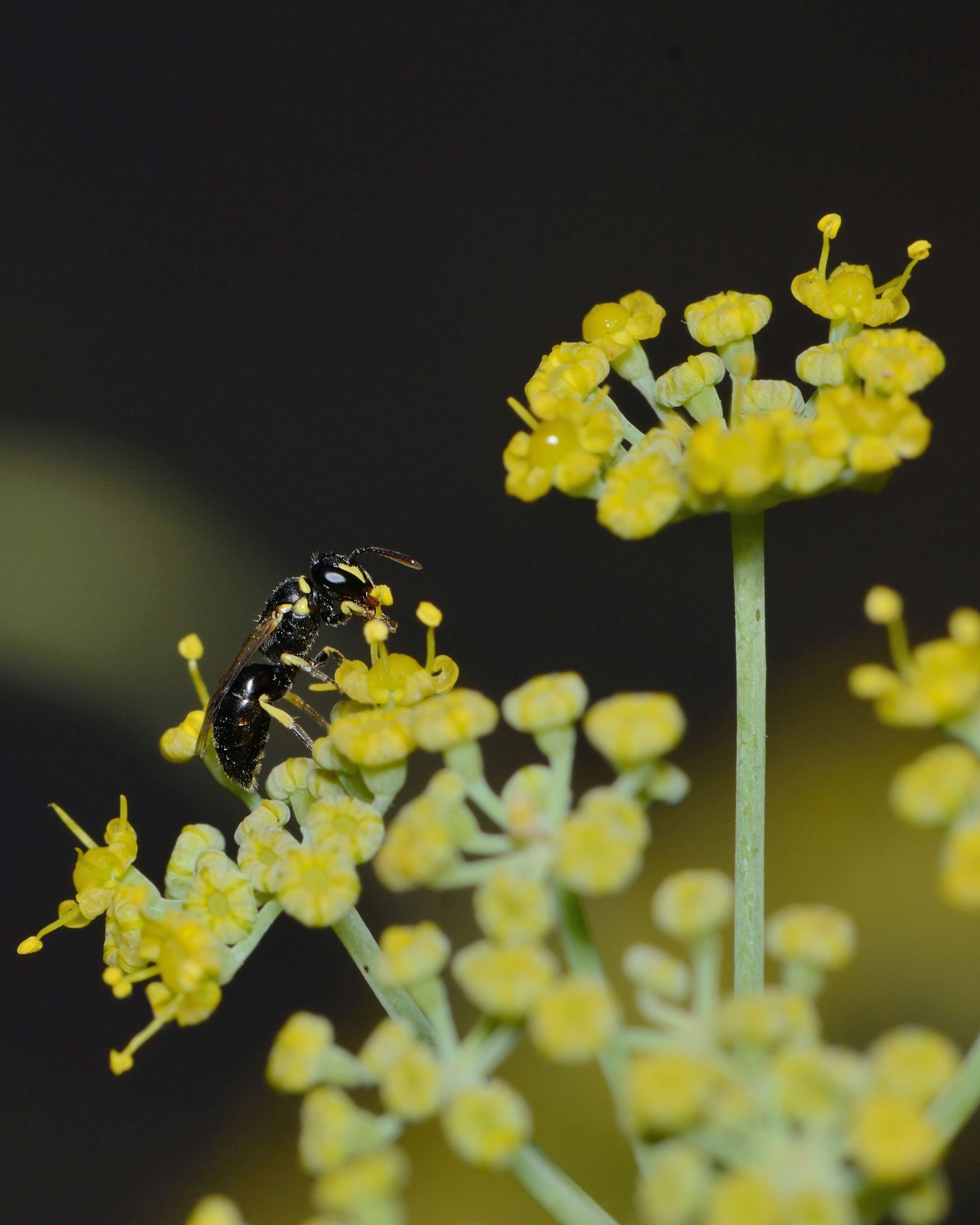 Hylaeus (Paraprosopis) taeniolatus Förster, 1871, female collecting pollen from fennel (Foeniculum vulgare), Mount Carmel, Israel, September 11, 2012.